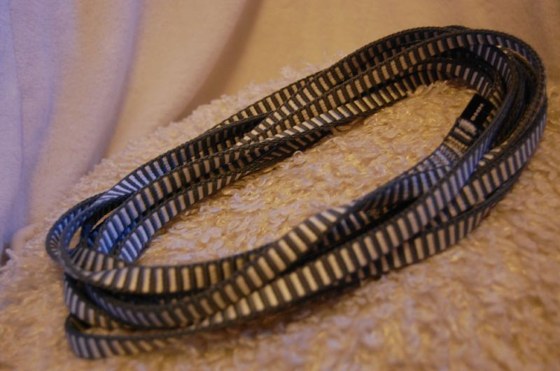 This photograph was taken my me, Kenneth H. Gillen. I have taken this photograph of my 240cm DMM Dyneema sling.